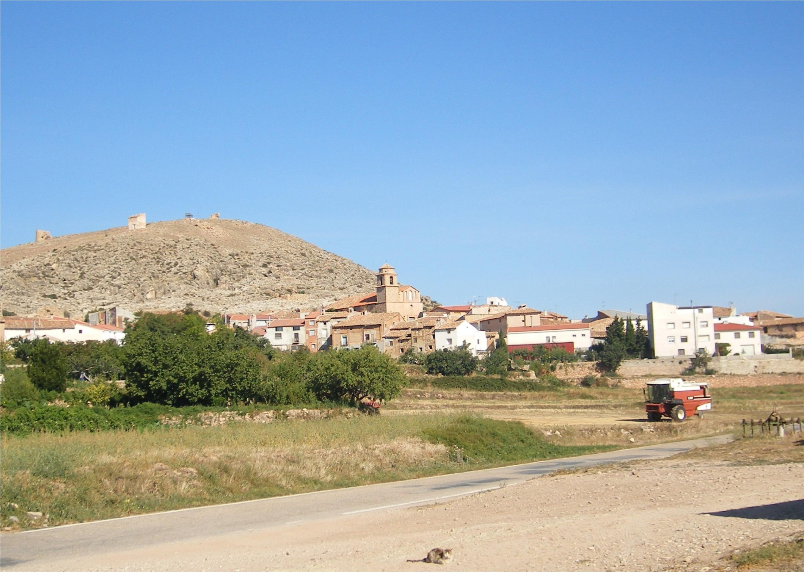 View of Monforte (Aragon).